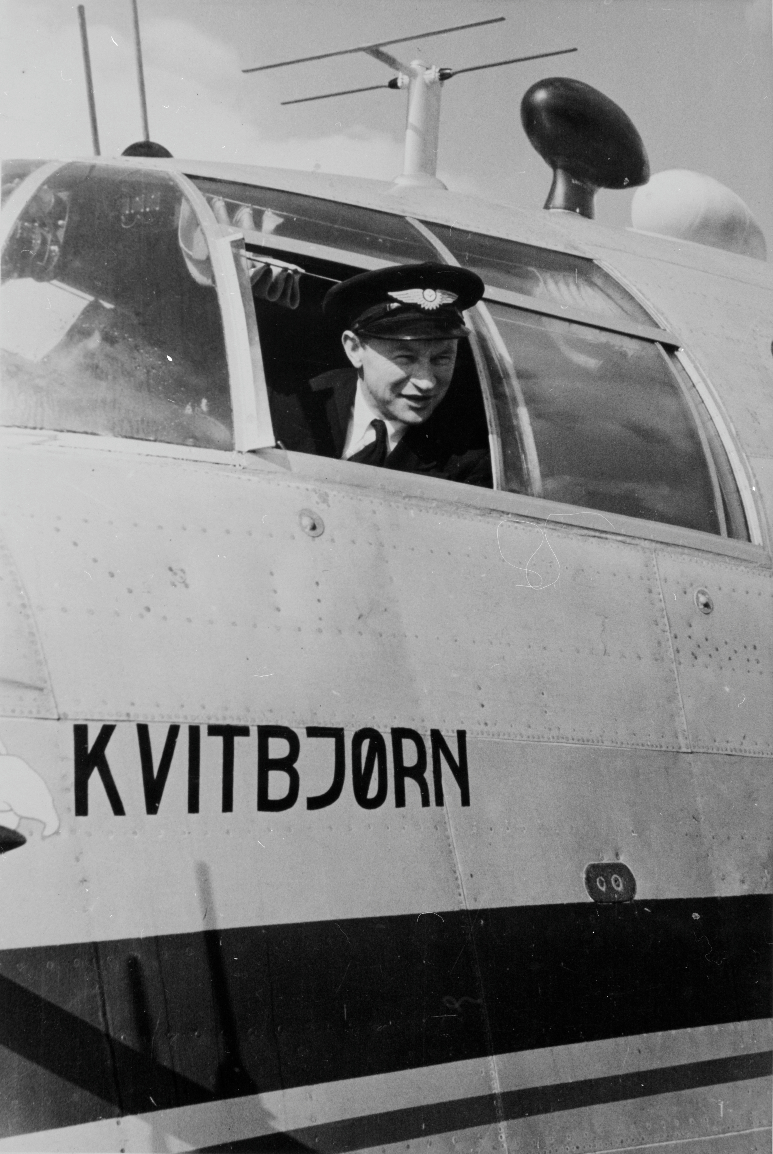 Short Sandringham "Kvitbjørn" of Det Norske Luftfartselskaps (DNL) with John Strandrud looking out of the window